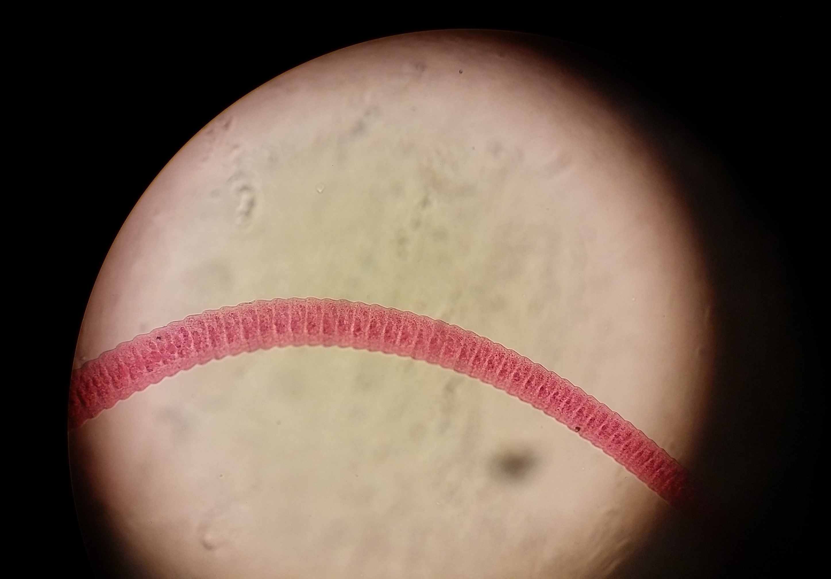 hymenolepis nana